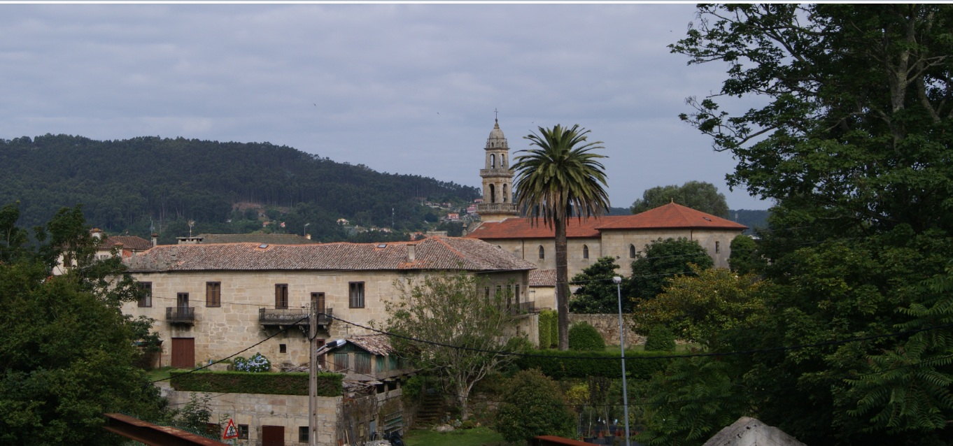 Parish of Aldán, Cangas (Galicia). View of the tower and church.